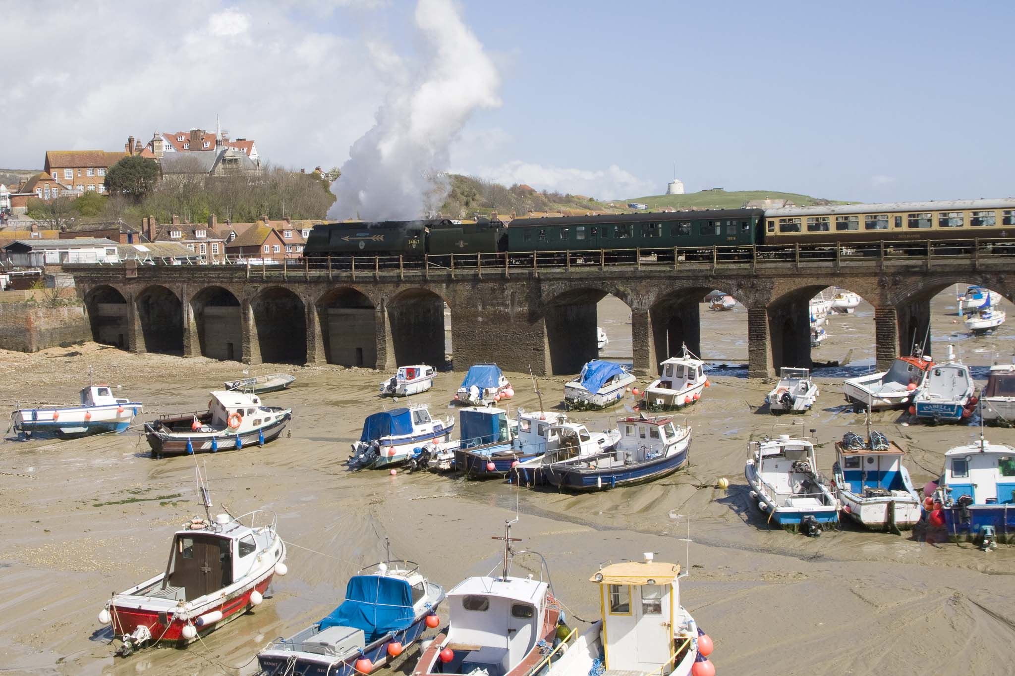 SR BoB Class 4-6-2 no 34067 Tangmere Taunton to Canterbury via Folkestone Harbour. Possibly the last Steam Train on this line before it is removed. This is a train with a real ‘wow’ factor that any steam enthusiast would not want to miss on a circular tour of over 200 miles hauled by Southern Railway Battle of Britain Pacific No 34067 Tangmere complete with the Golden Arrow regalia. The highlight of the day being the 1 in 30 climb up the soon to be closed branch from Folkestone Harbour. The Golden Arrow was a luxury train of the Southern Railway and later British Railways that linked London with Dover, where passengers took the ferry to Calais to join the Flèche d’Or of the Chemin de Fer du Nord and later SNCF that took them onto Paris.